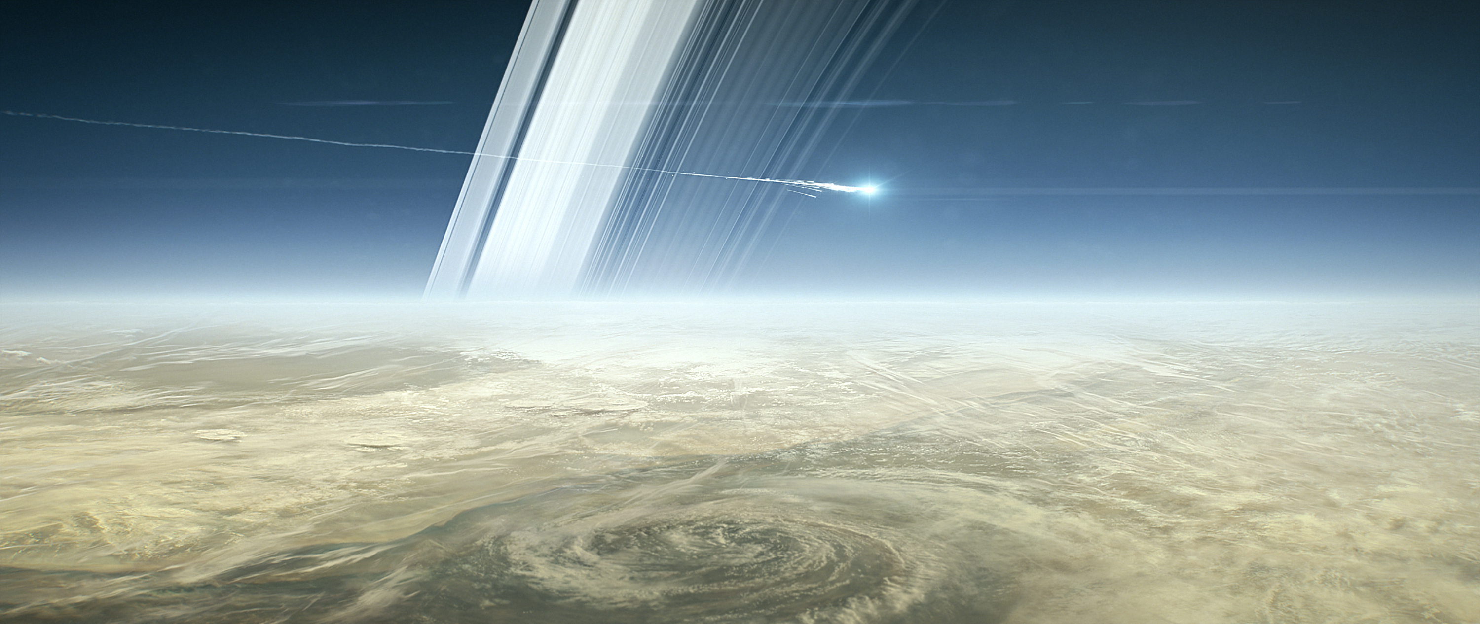 n this screenshot from the short animated film Cassini's Grand Finale, the spacecraft is shown breaking apart after entering Saturn's atmosphere. The planned end of Cassini will occur on Sept. 15, 2017.